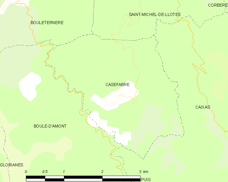 Map of French municipality